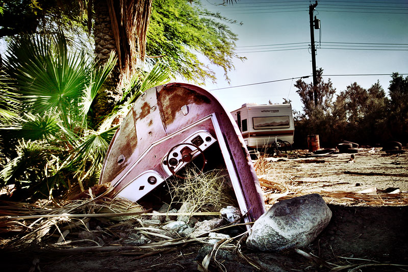 A boat oddly stuck in the ground, right next to the Marina on the west coast of the Salton Sea, CA.